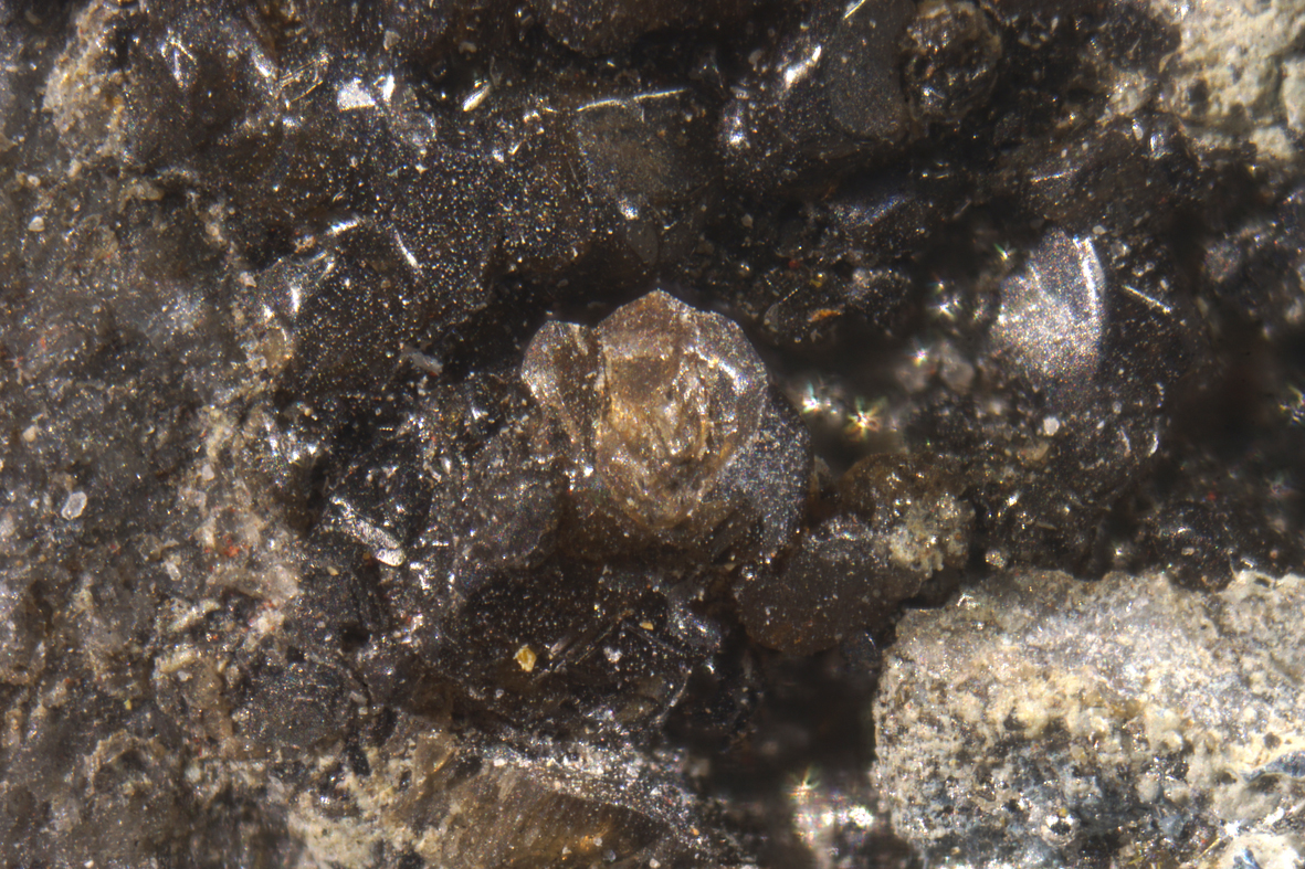 Calomel microcrystals from Almadenejos mine, Ciudad Real, Spain.